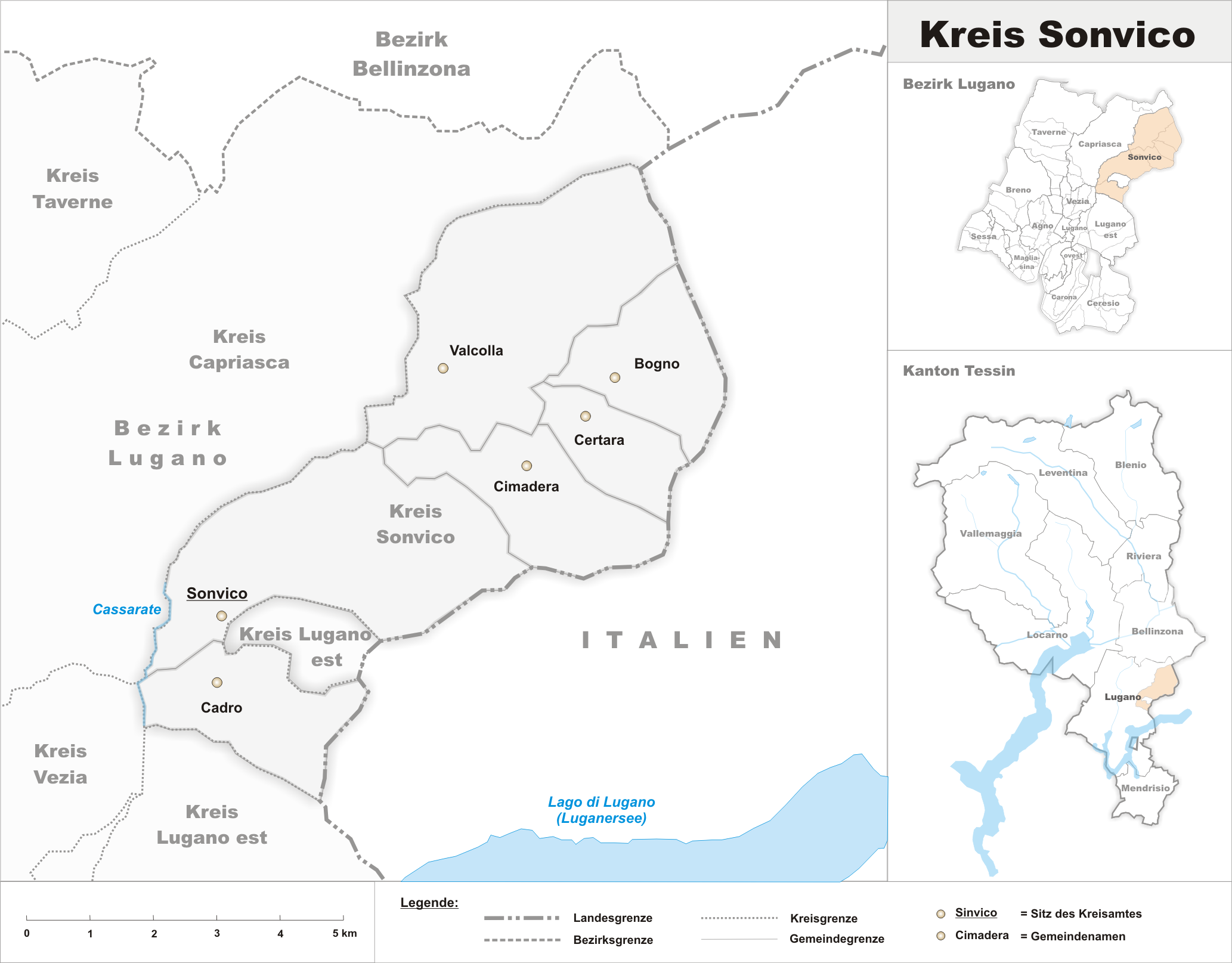 Municipalities in the circle of Sonvico